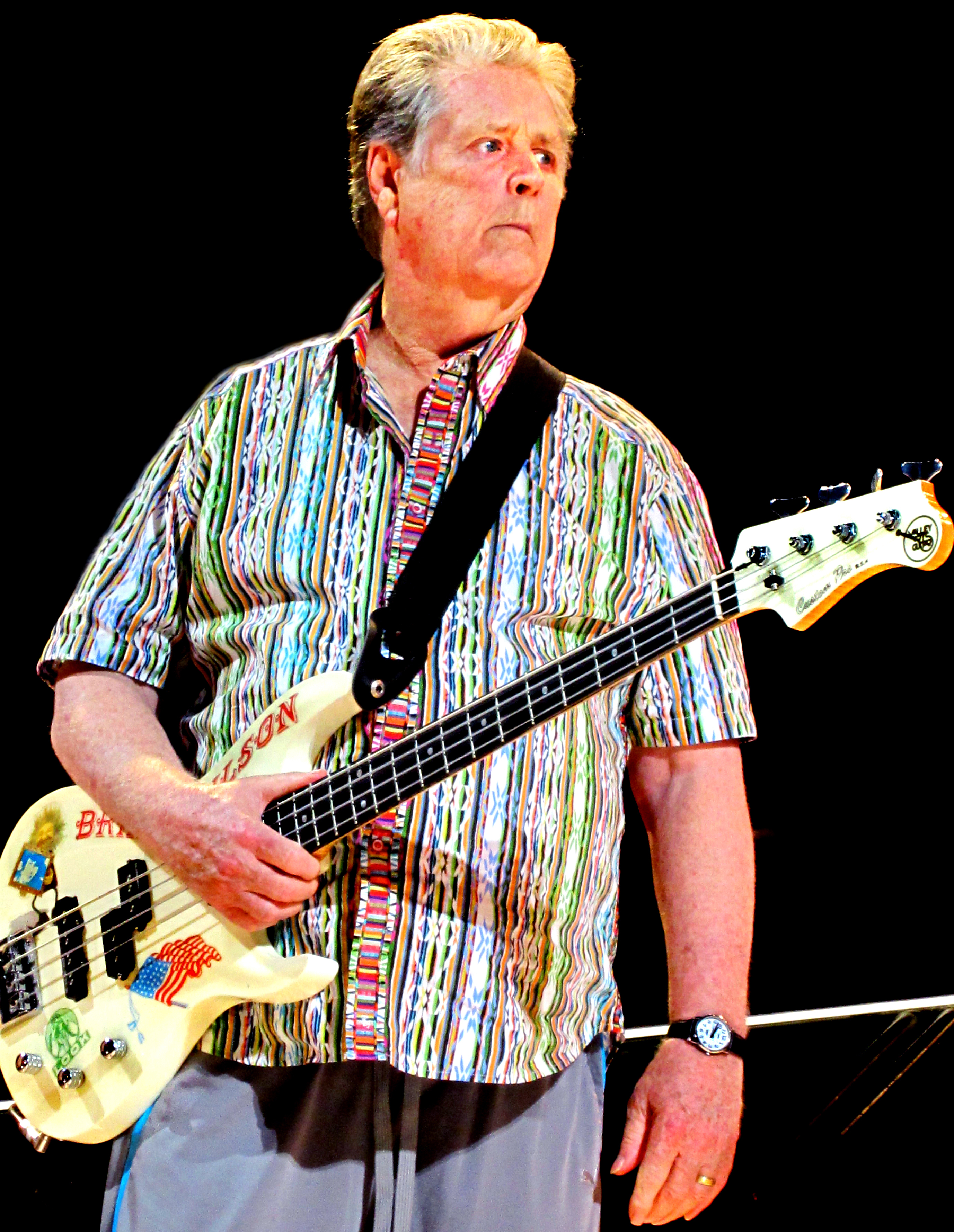 Brian Wilson - Beach Boys Reunion Tour 2012